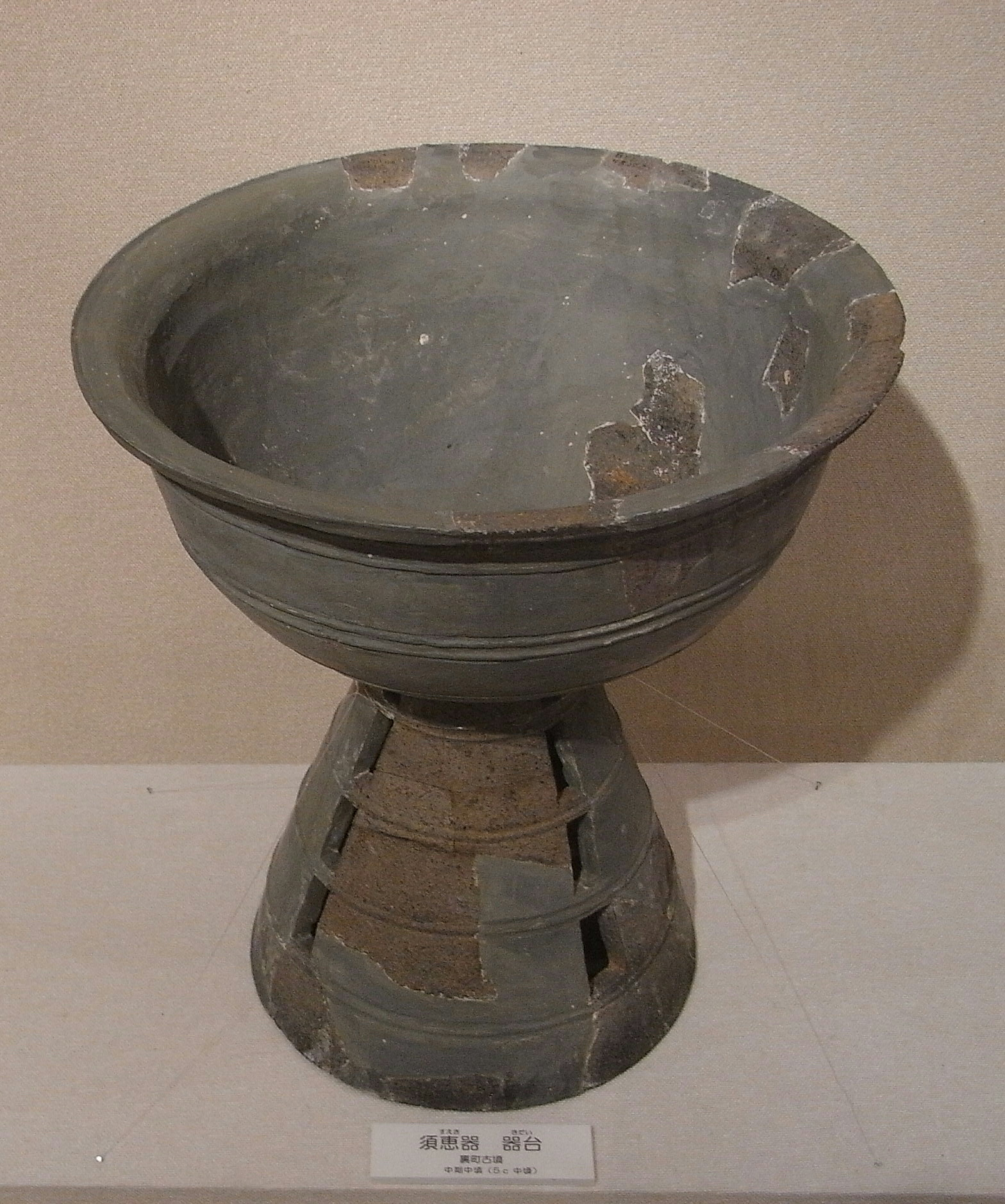 Sue ware discovered in the Uramachi Kofun in the 5th century. Excavated in 1973 from the Uramachi Kofun in Nishitaga 1 chōme, Taihaku ward, Sendai, Miyagi prefecture, Japan. The photograph was taken at the Underground Forest Musium.